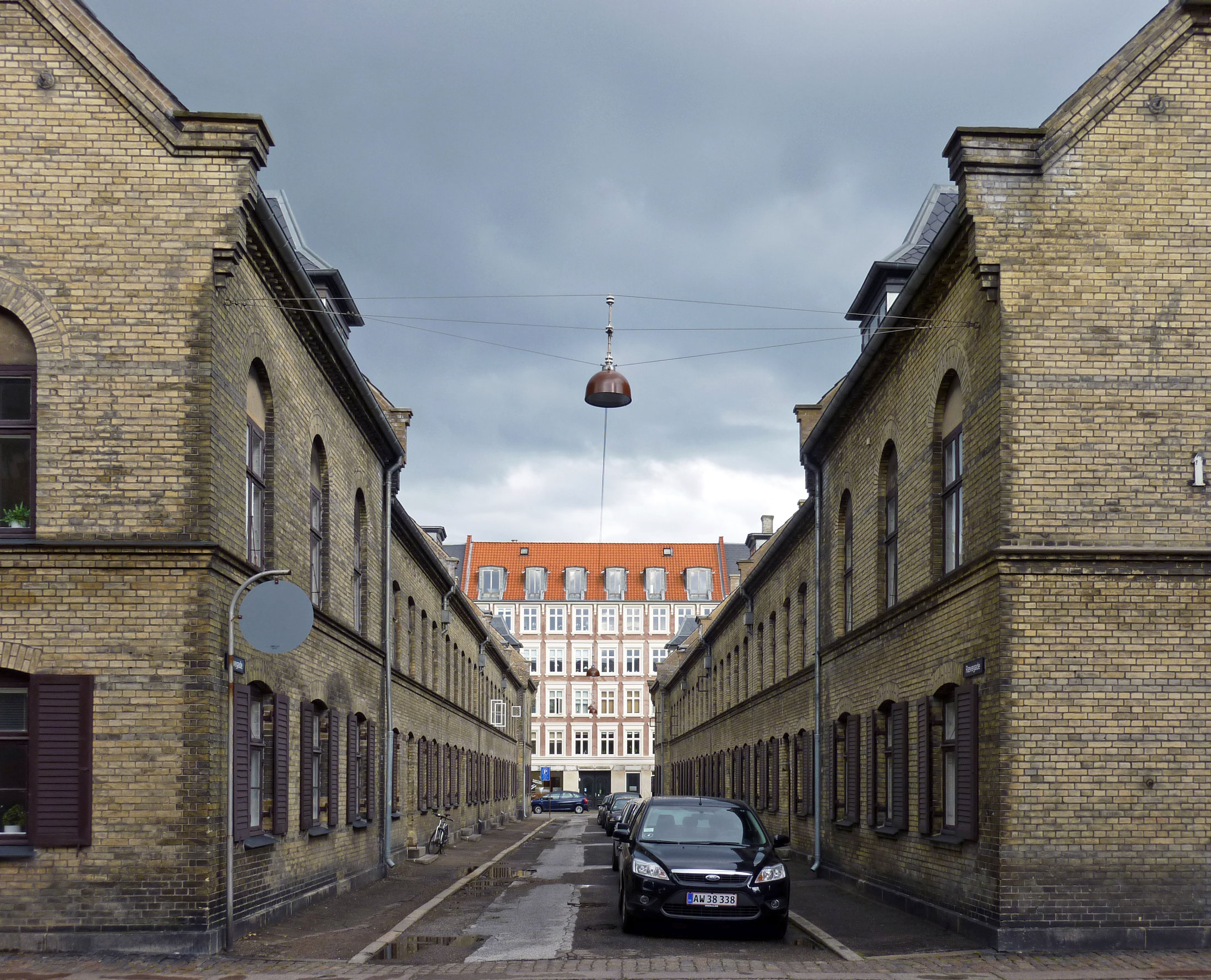 Rævegade, a small street in central Copenhagen, Denmark. The buildings are the so-called Grey Rows (Grå eller Nye Stokke) of the Nyboder area. The street is seen from St. Pauls Plads with Borgergade in the background.